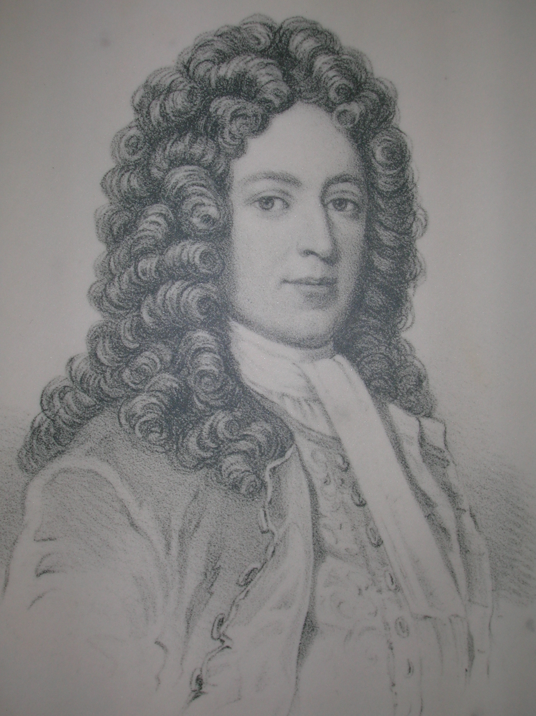 Alexander Montgomery, 9th Earl of Eglinton 1660 - 1729